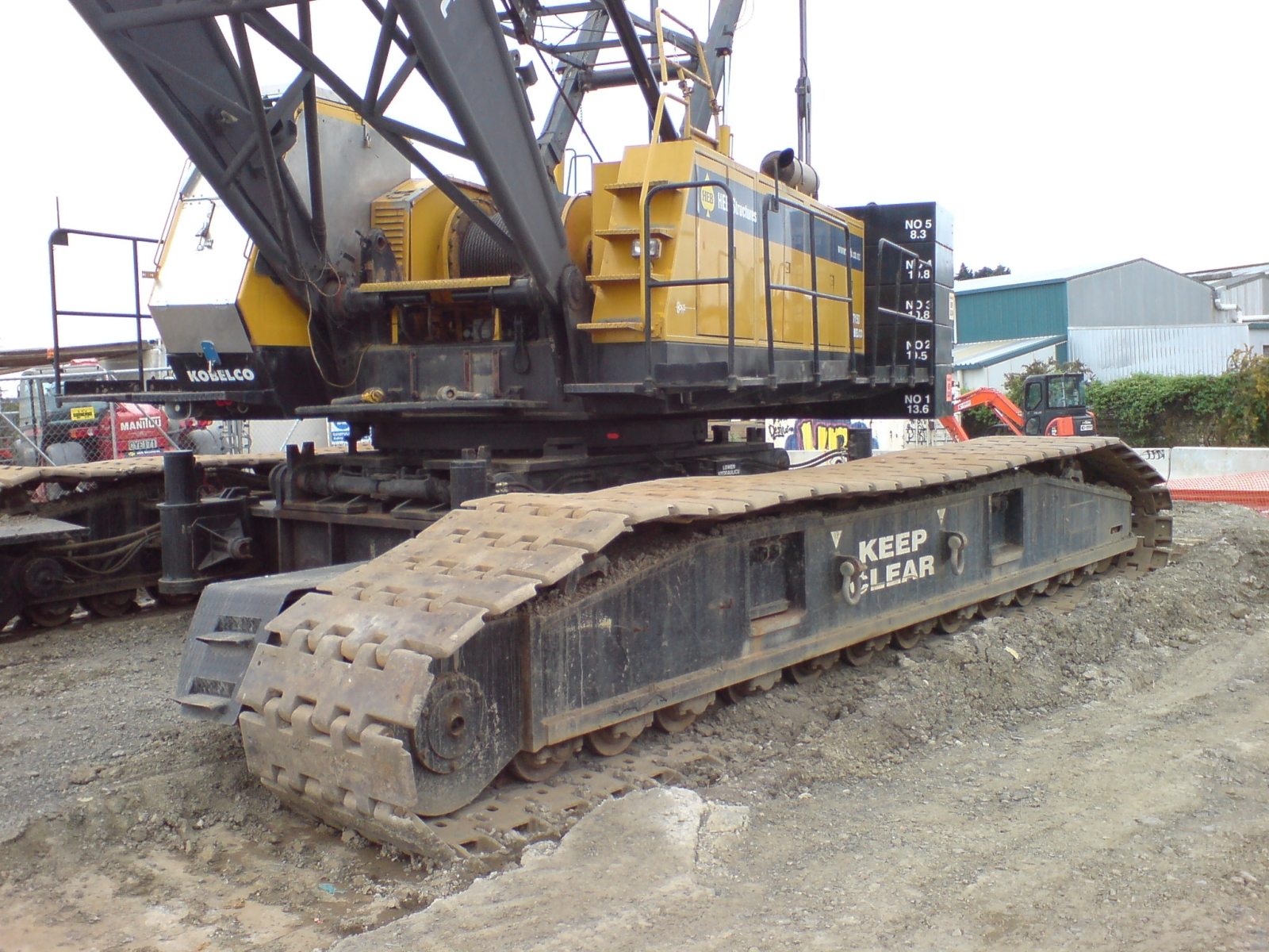 A tracked construction crane in Waitakere City, New Zealand, on a construction site for the railway line improvements. This appeared to be for the new bridge over the nearby creek.